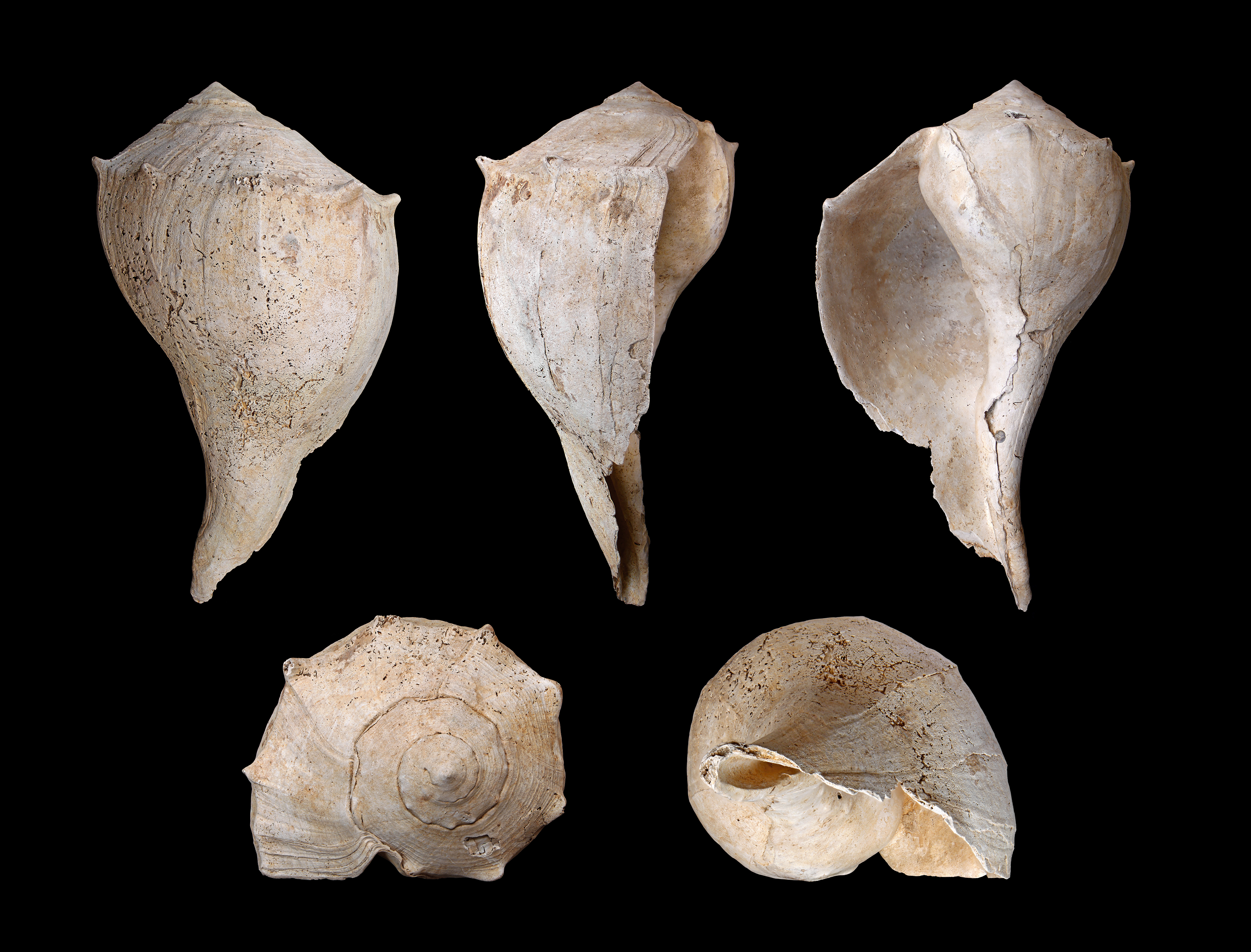 'Lightning Whelk; Length 24 cm; Tertiary, Pliocene, La Belle, Florida, USA; Shell of own collection, therefore not geocoded.Dorsal, lateral (left side), ventral, back, and front view.